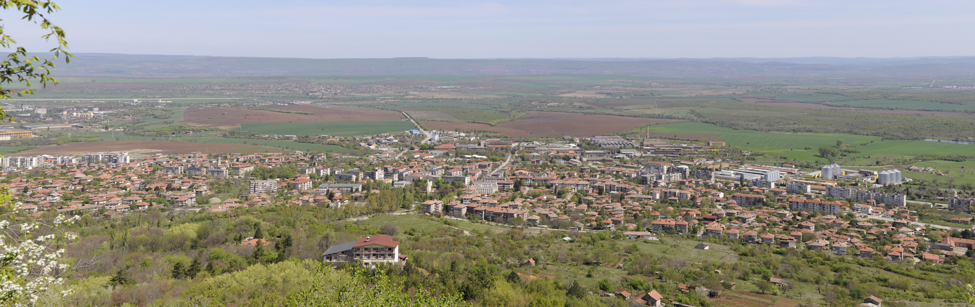 The town of Lyaskovets, Veliko Tarnovo Province, Bulgaria.